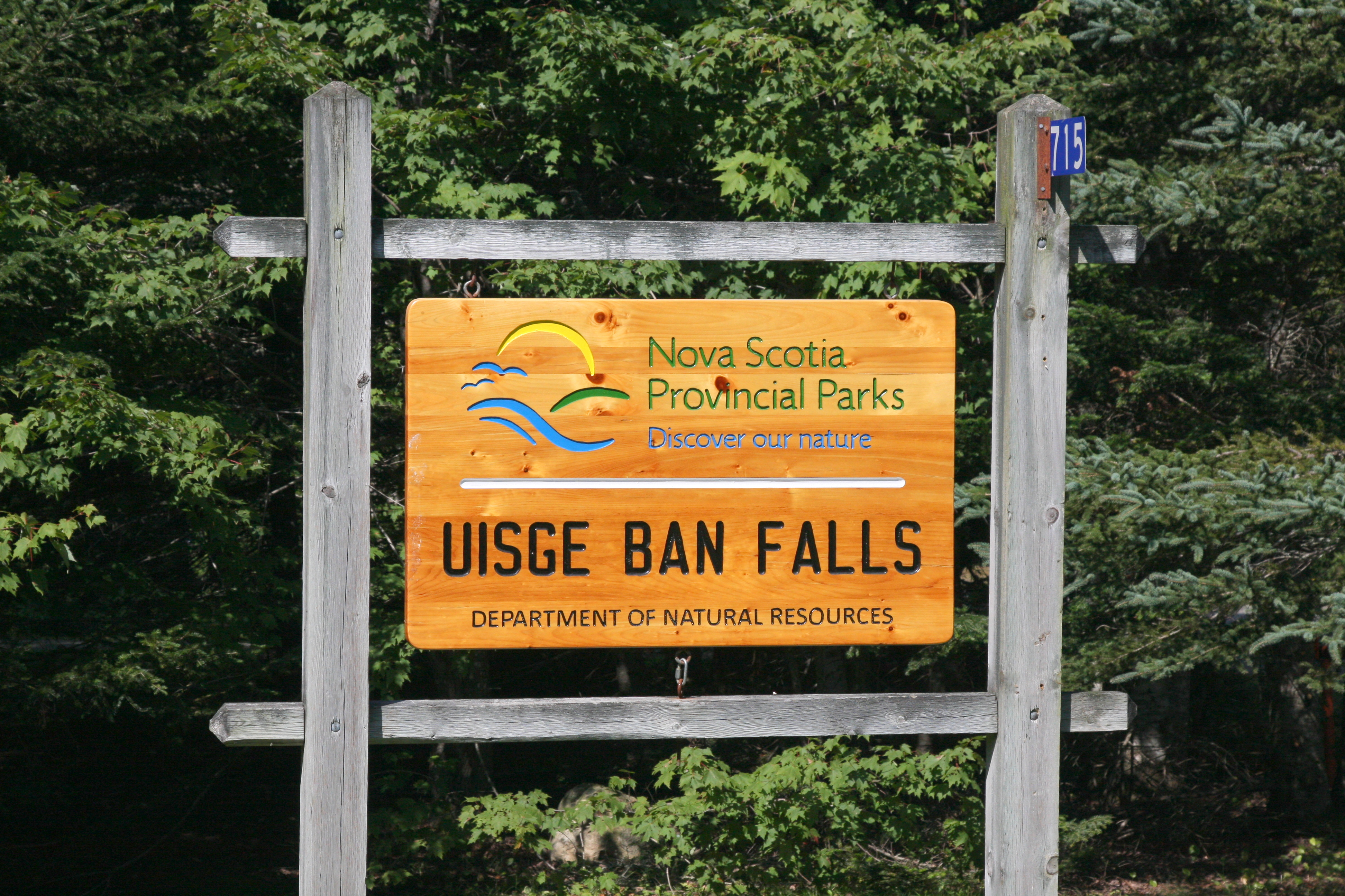 Uisage Ban Falls Provincial Park (alternative spellings 'Easach' or 'Uisge'; 'Bàn' or 'Bahn') is a provincial park near New Glen, in the Canadian province of Nova Scotia on Cape Breton Island, 14.5 kilometres (9 miles) north of Baddeck. The civic address of the park entrance is 715 North Branch Road, Baddeck Forks, Nova Scotia, Canada B0E 1B0